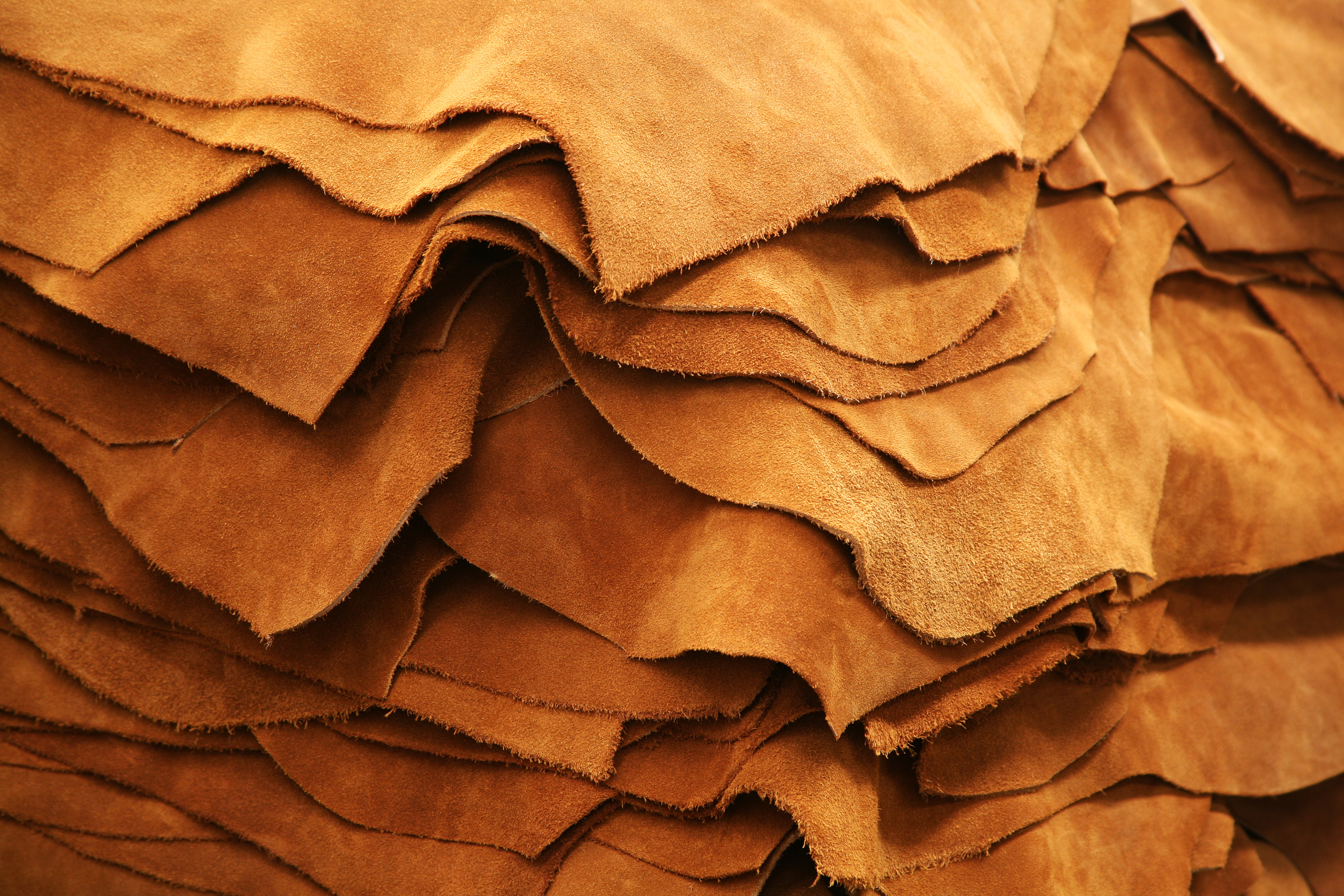 Pile of leather